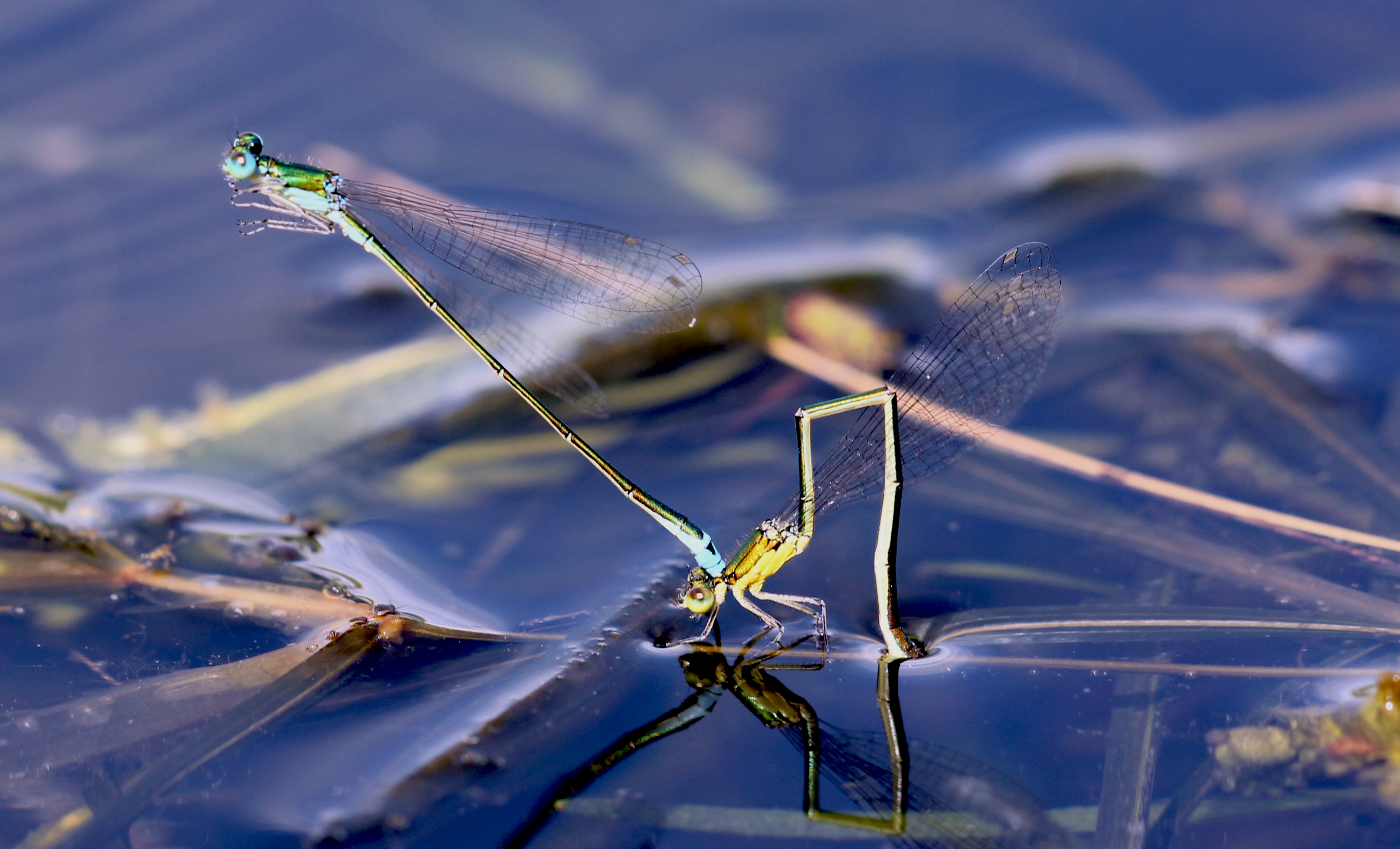 Nehalennia irene male and female